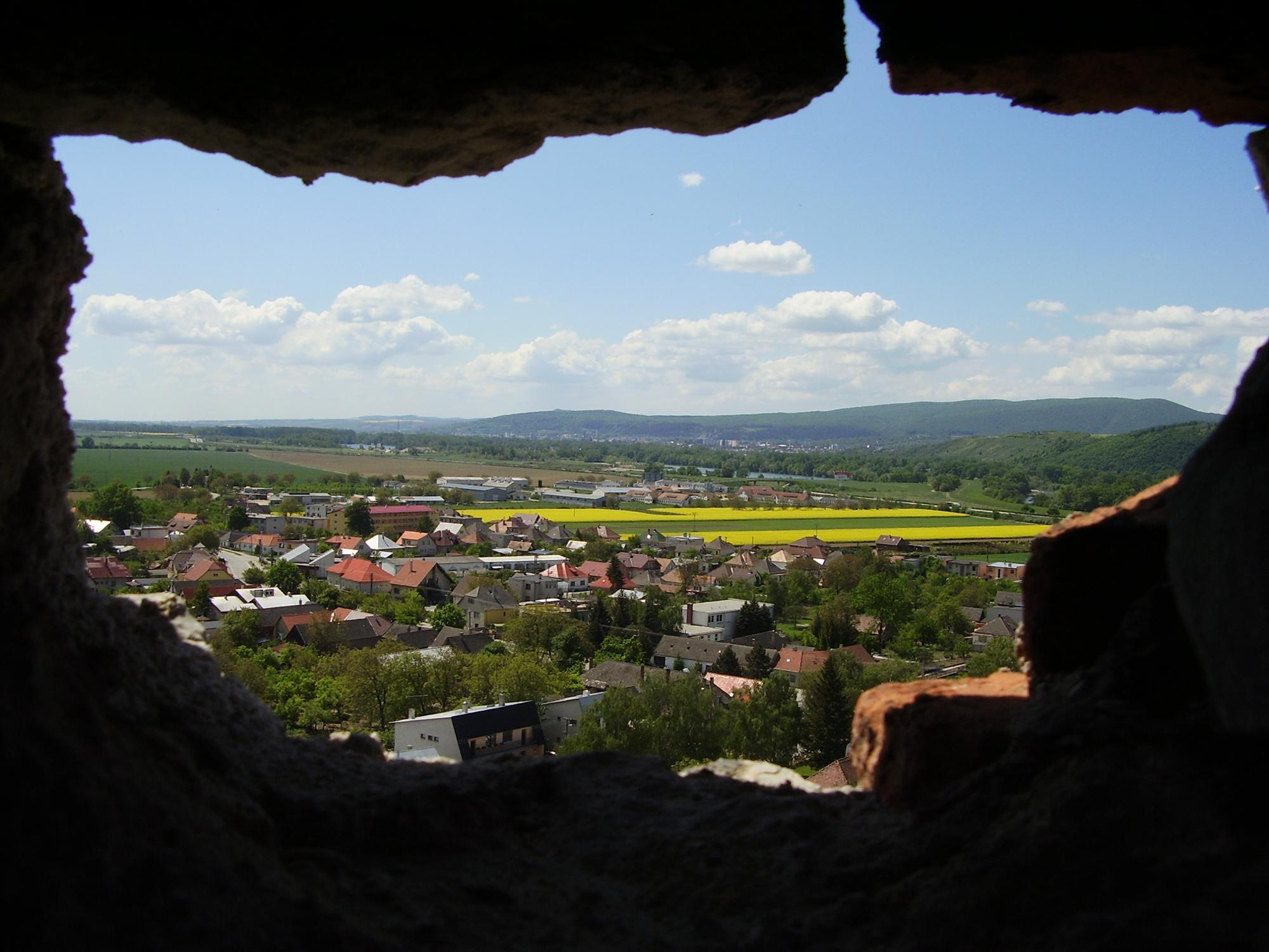 View at village Beckov from castle